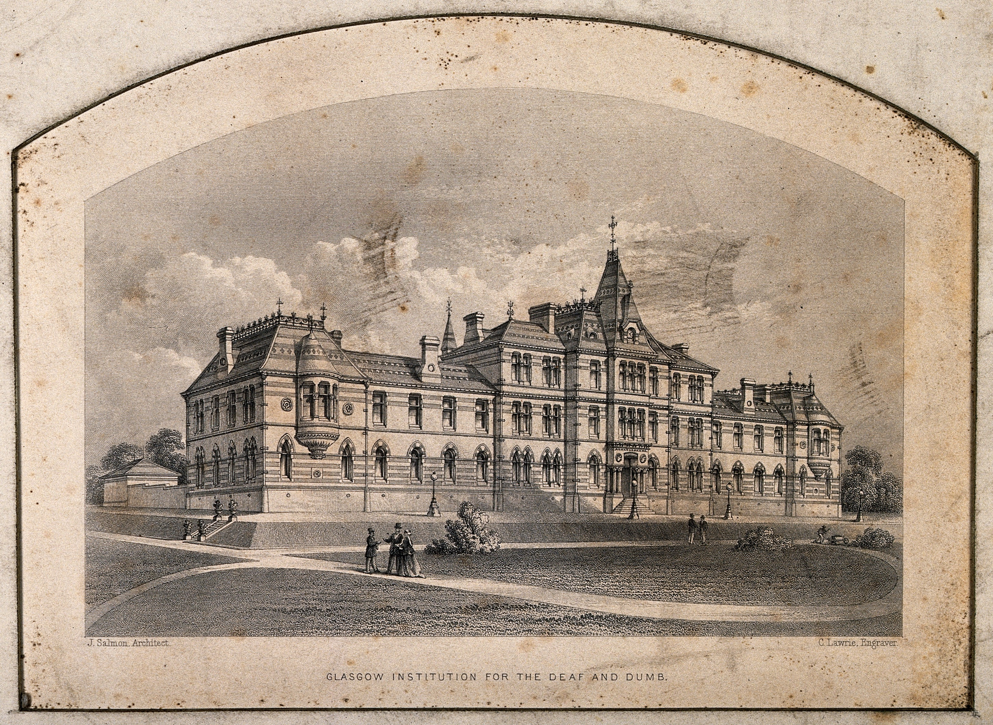 Deaf and Dumb Institution, Glasgow. Line engraving by C. Lawrie after J. Salmon. Iconographic Collections Keywords: C. Lawrie; James Salmon